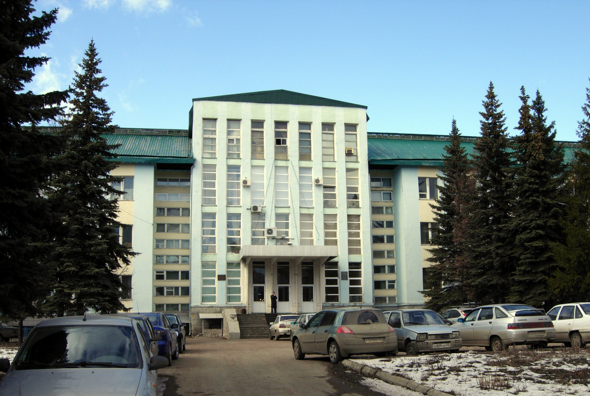 Institute of Organic Chemistry (Ufa)